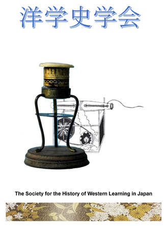 Flyer front page of the Japanese Yōgakushi Gakkai